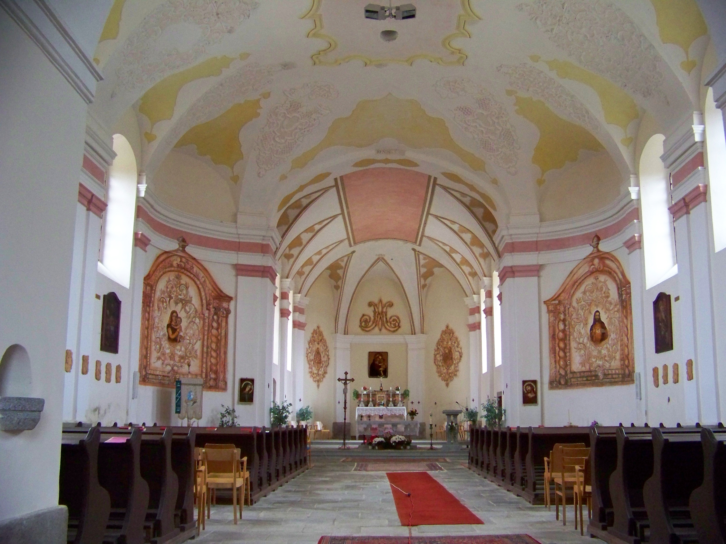 Interior of the church of Our Lady of the Snow in Svatý Kámen (Holy Stone)